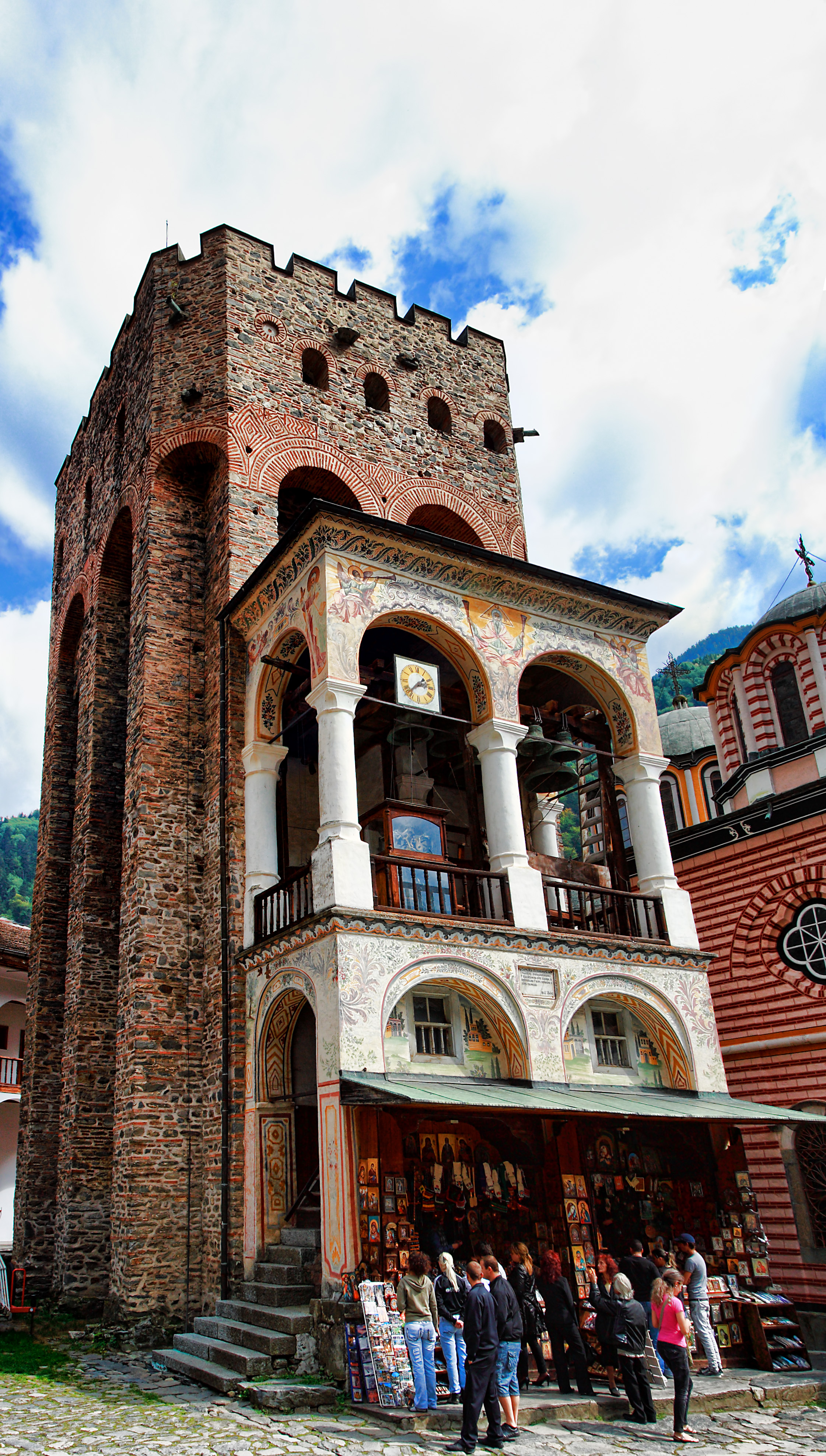 Hrelja's Tower in Rila Monastery complex